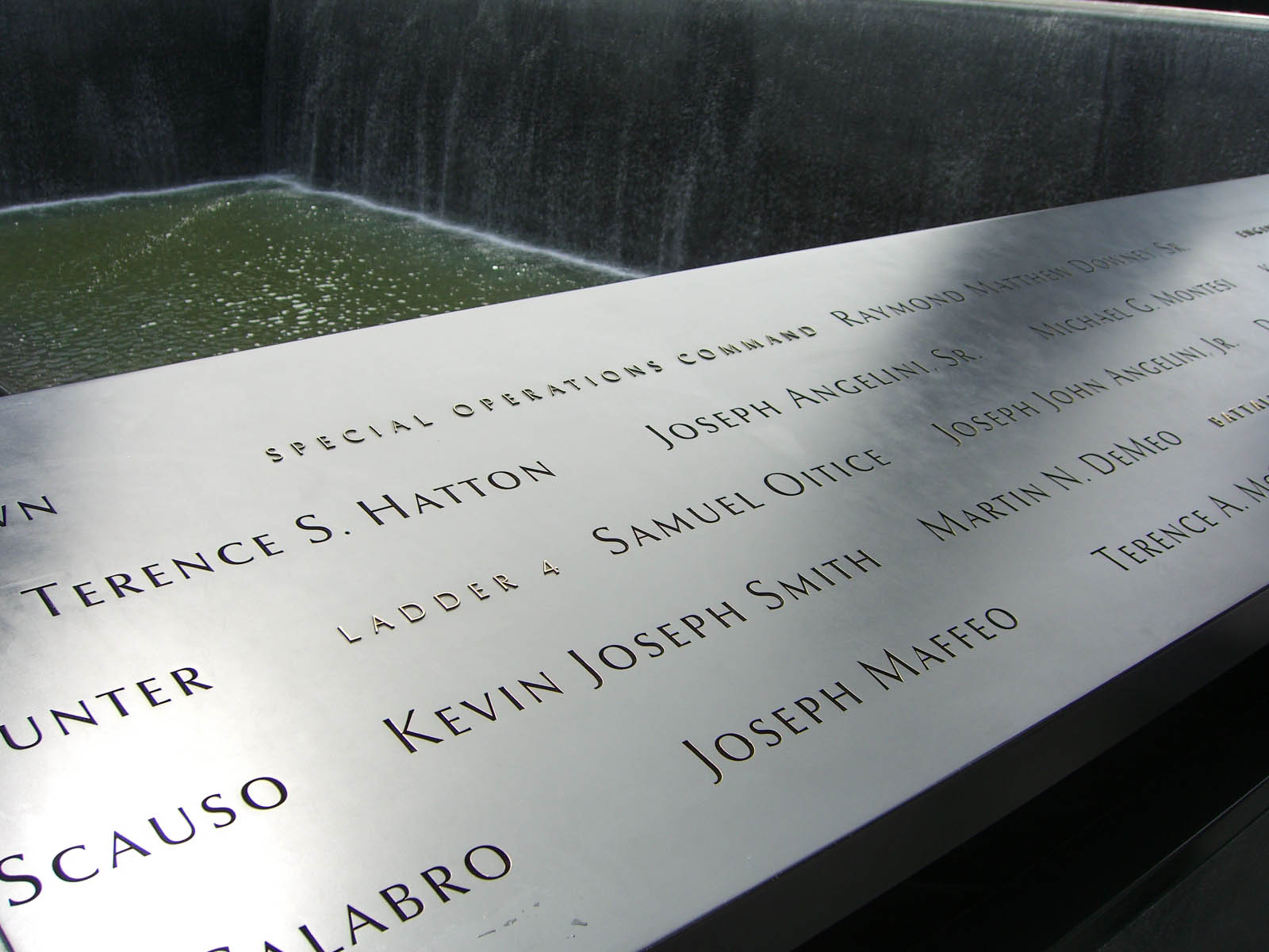 Panel S-9 of the South Pool of the National September 11 Memorial in Manhattan, one of 25 panels on which the names of first responders who perished during the attacks are inscribed. Among the names on this panel are those of Terence S. Hatton, Joseph Angelini Sr. and Michael G. Montesti of New York City Fire Department Rescue Company 1. This photo was created by Luigi Novi. If you have any questions, you can contact me by sending me an email or User talk:Nightscream